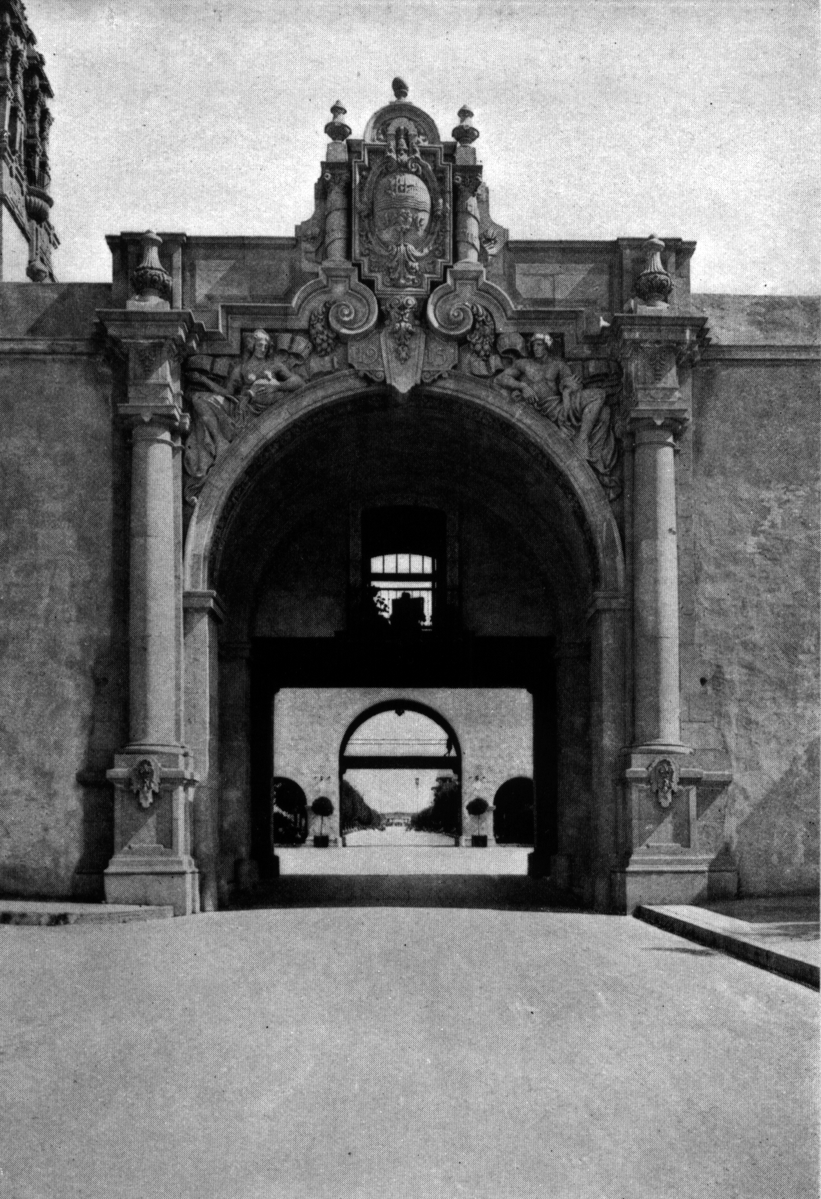 California Quadrangle, Gate of San Diego — at the Panama-California Exposition, Balboa Park, San Diego, California (1916). This gateway, the principal ceremonial entrance to the Exposition, is, in a certain sense, a part of the Fine Arts Building which was erected by the city of San Diego, which fact has been marked by the coat-of-arms of the city at the crown of the arch. A deep archway is flanked by engaged Doric orders supporting a rich, fructrated entablature enclosing, in the spandrels, beautiful figures symbolizing the Atlantic and Pacific oceans joining waters together in the commemoration of the opening of the Panama Canal, the object of building the Exposition. These figures are the work of Furio Piccirilli. The architect of the Fine Arts Building was Bertram Grosvernor Goodhue.